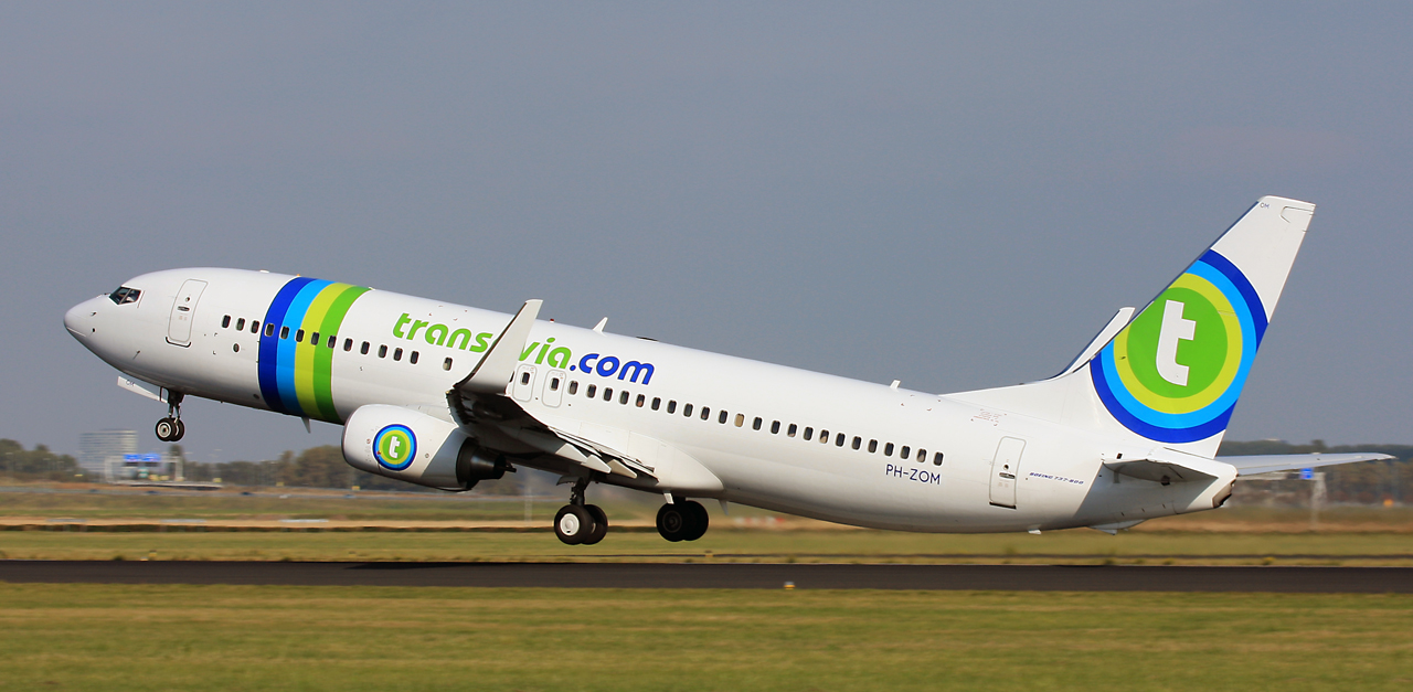 Transavia Boeing 737-800 @ Schiphol